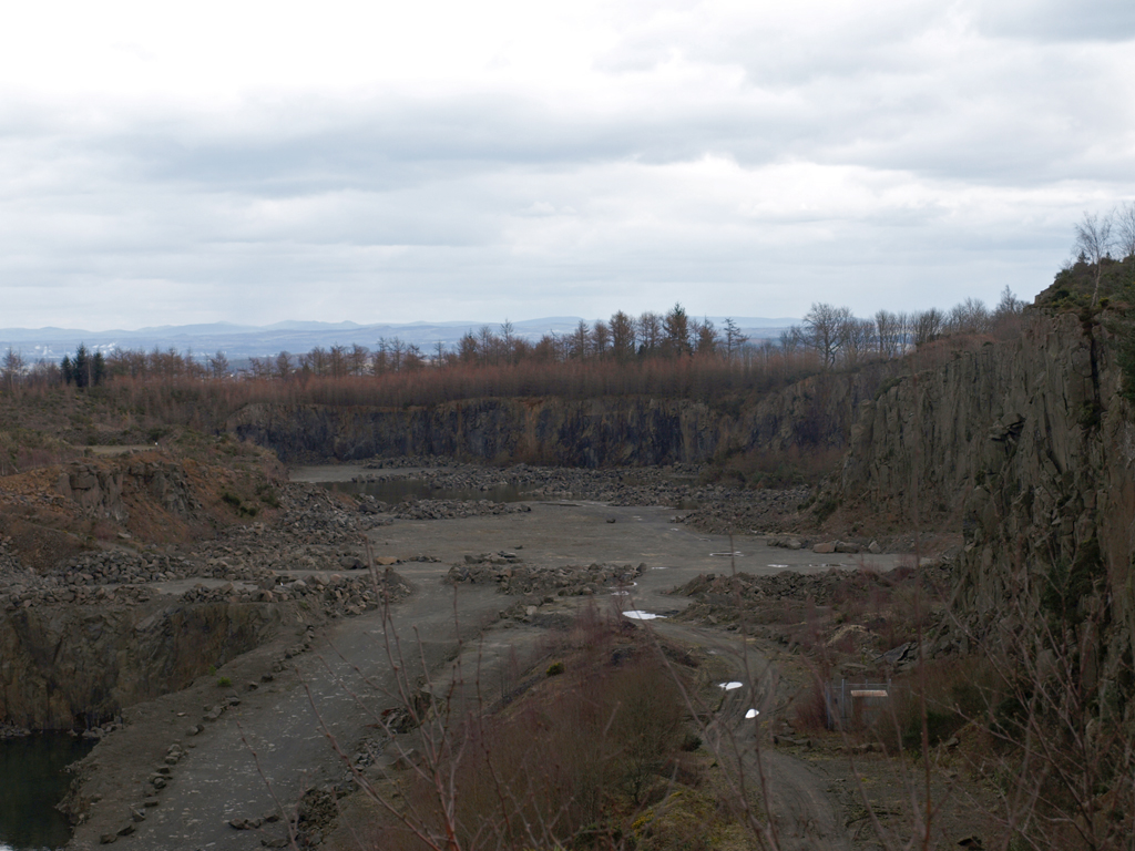 Murrayshall Quarry 4-26-08